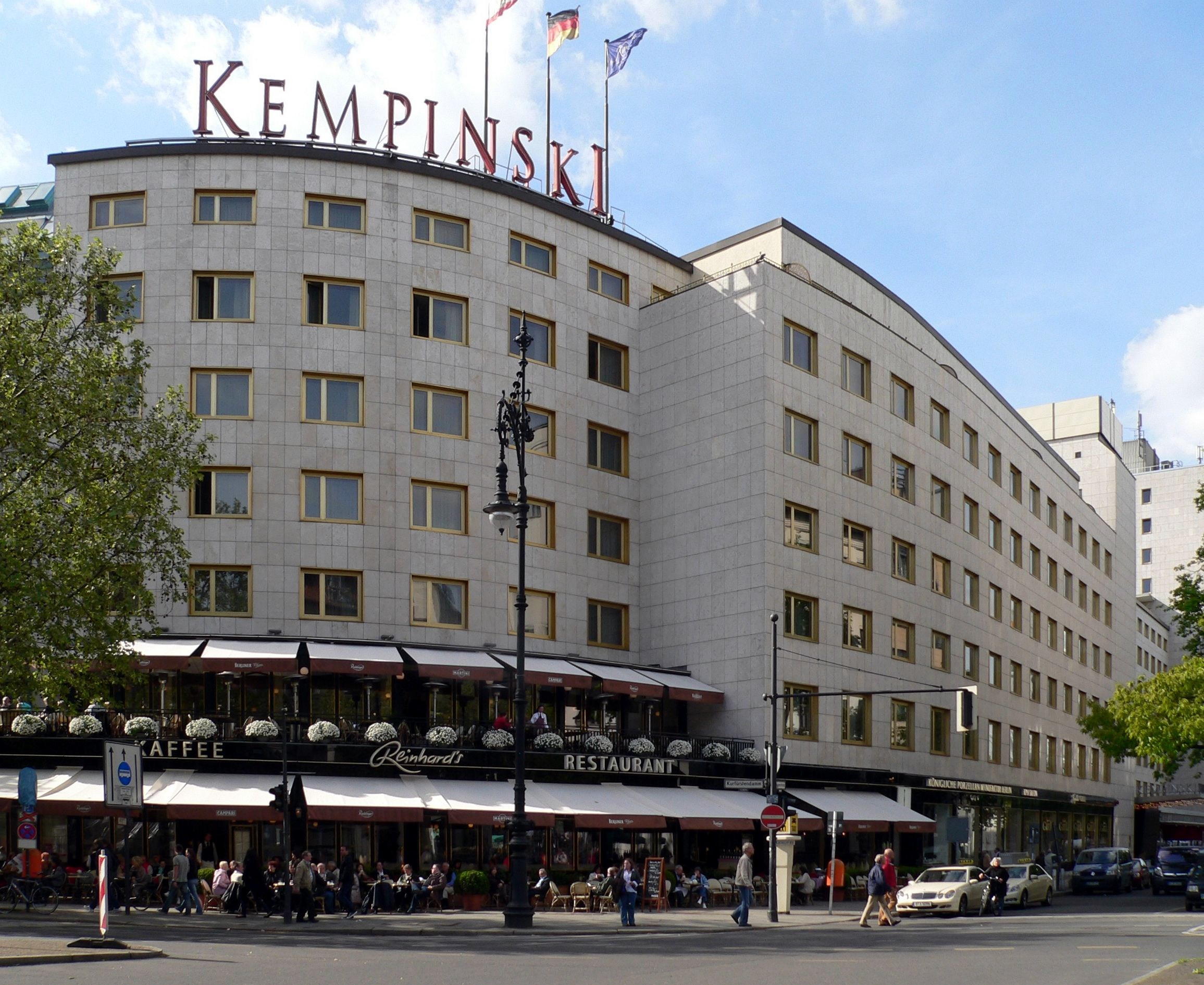 Berlin-Charlottenburg Hotel Kempinski, view from Kurfürstendamm